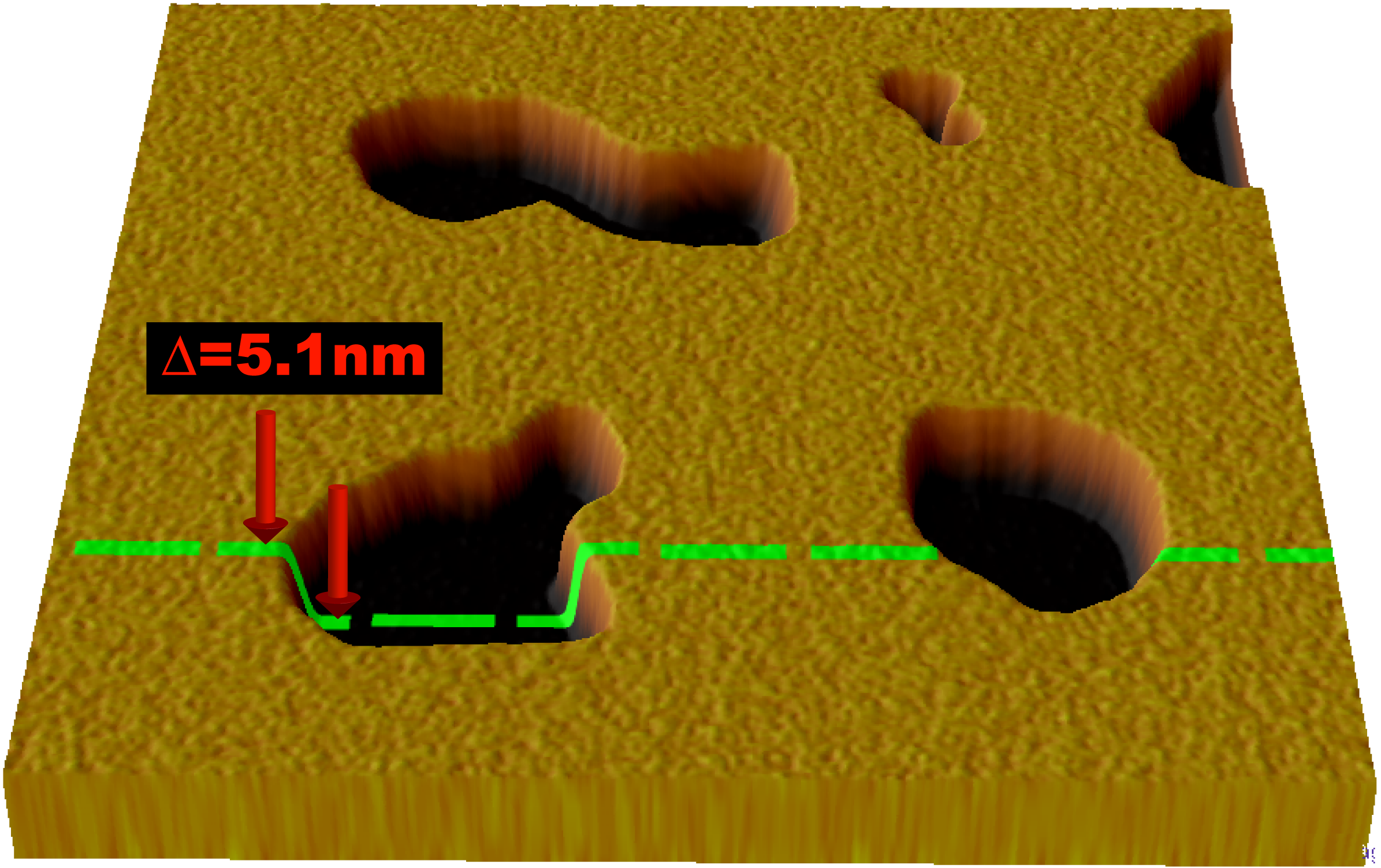 Illustration of a typical result from an AFM scan of a supported lipid bilayer. The bilayer shown here has several defects which appear as pits. By measuring the distance from the top of the bilayer to the substrate it is possible to determine the thickness of the bilayer.